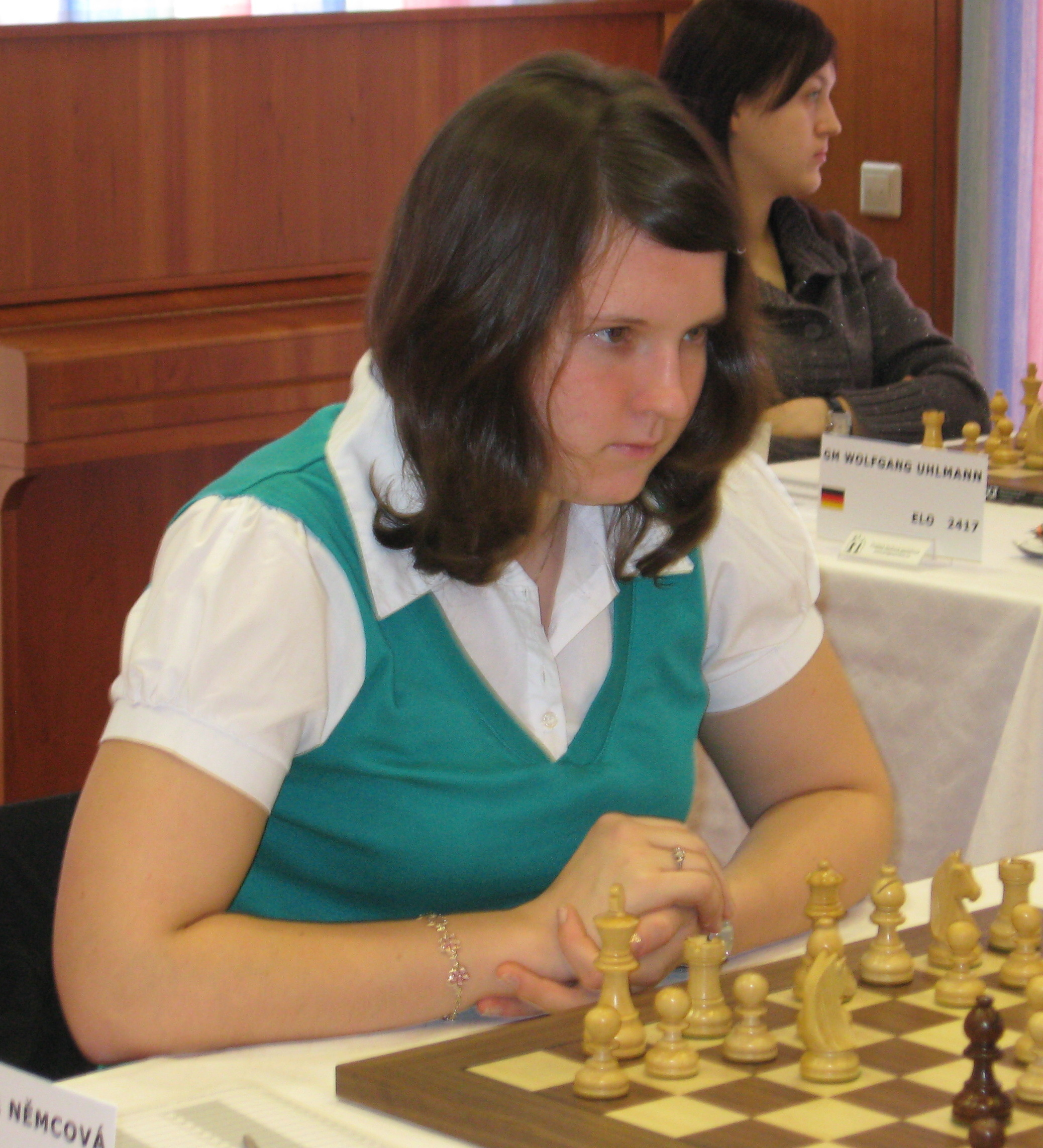 Kateřina Němcová